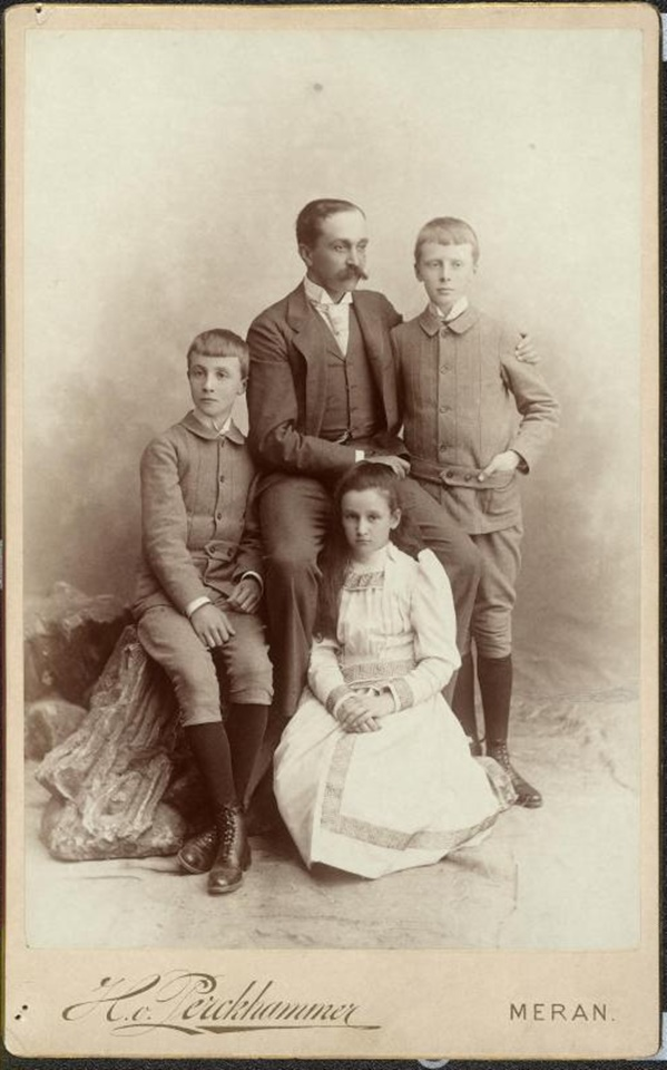 Miguel, Duke of Braganza (1853-1927) with the children by his first wife: Prince Miguel (1878-1923), Prince Francis Joseph (1879-1919) and Princess Maria Theresia (1881–1945)